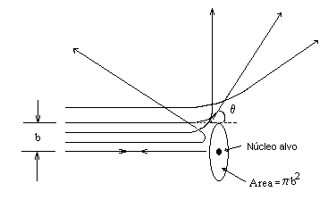 Espalhamento com diferentes parâmetros de impacto.